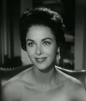 Screenshot of Dana Wynter from the trailer for the film Invasion of the Body Snatchers.